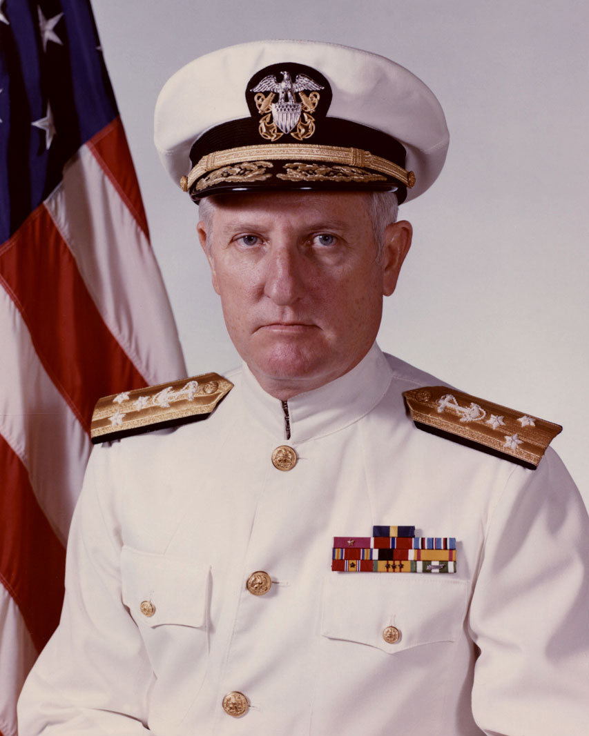 Vice admiral of the US Navy James H. Doyle Jr. (1925-2018), Former commanding officer of the USS Bainbridge